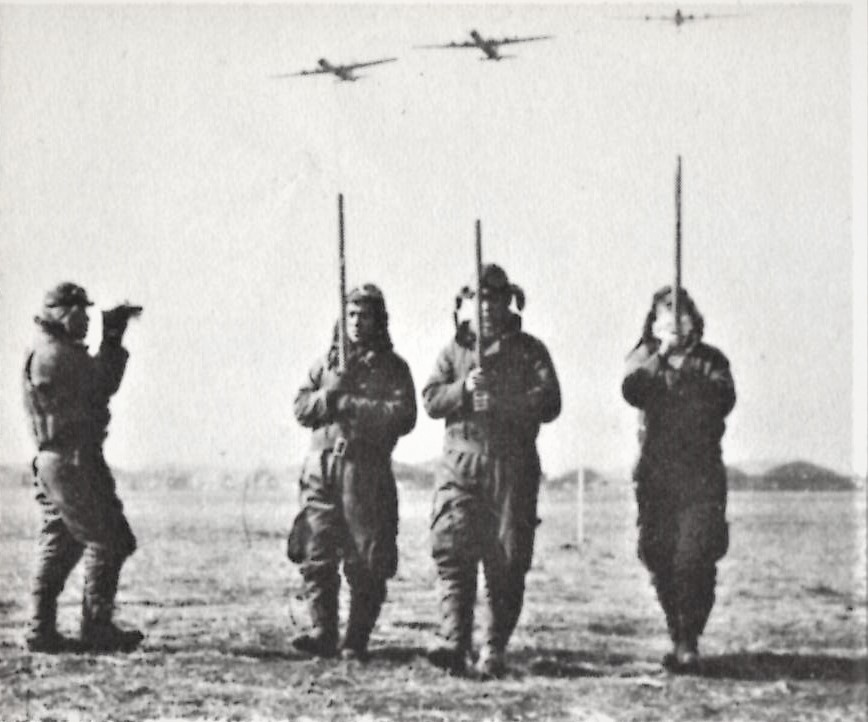 Nakajima J1N pilot of the Japanese Imperial Navy 302 Air Corps training for B29